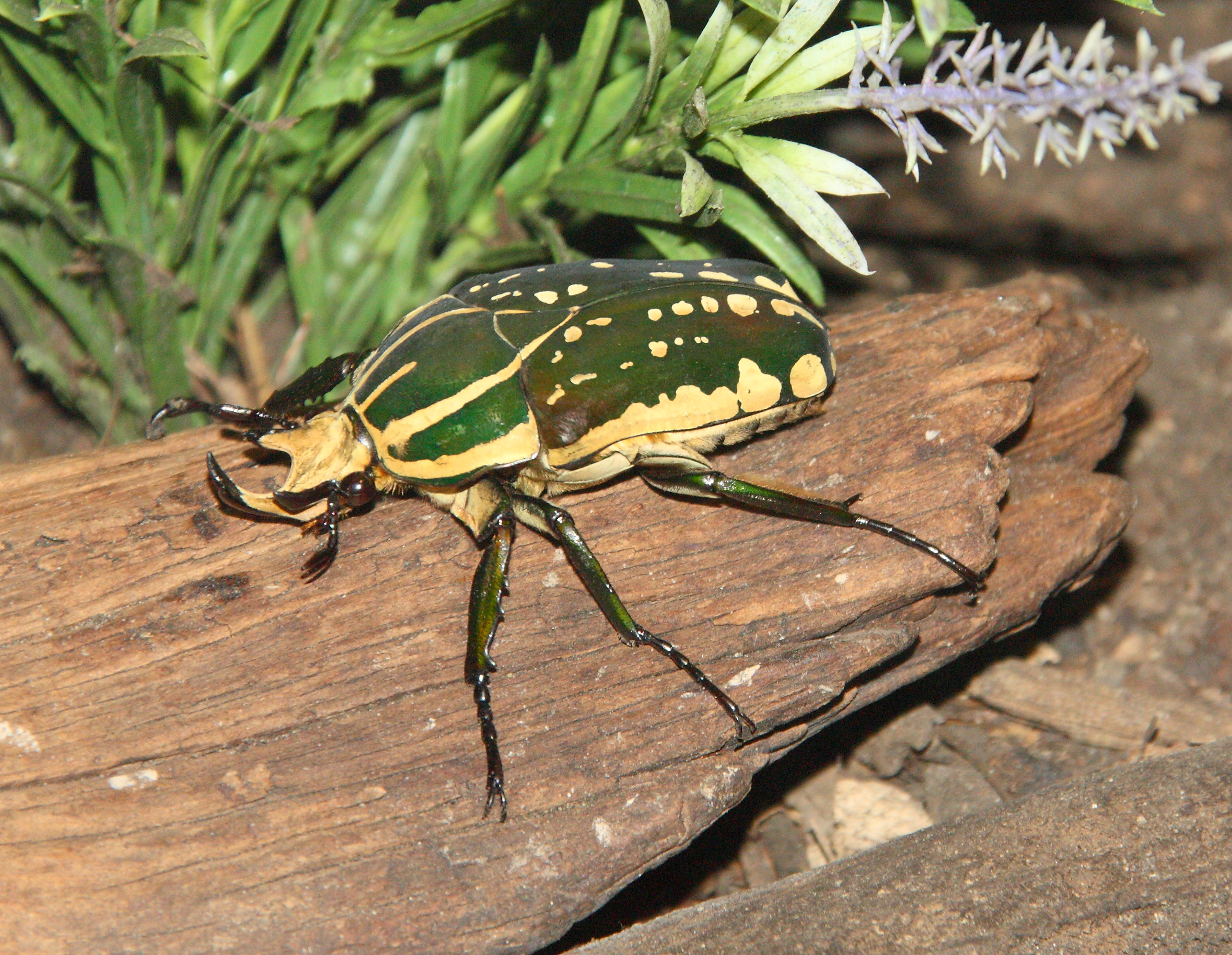 Male Chelorrhina polyphemus at the Cincinnati Zoo. Photo by Greg Hume